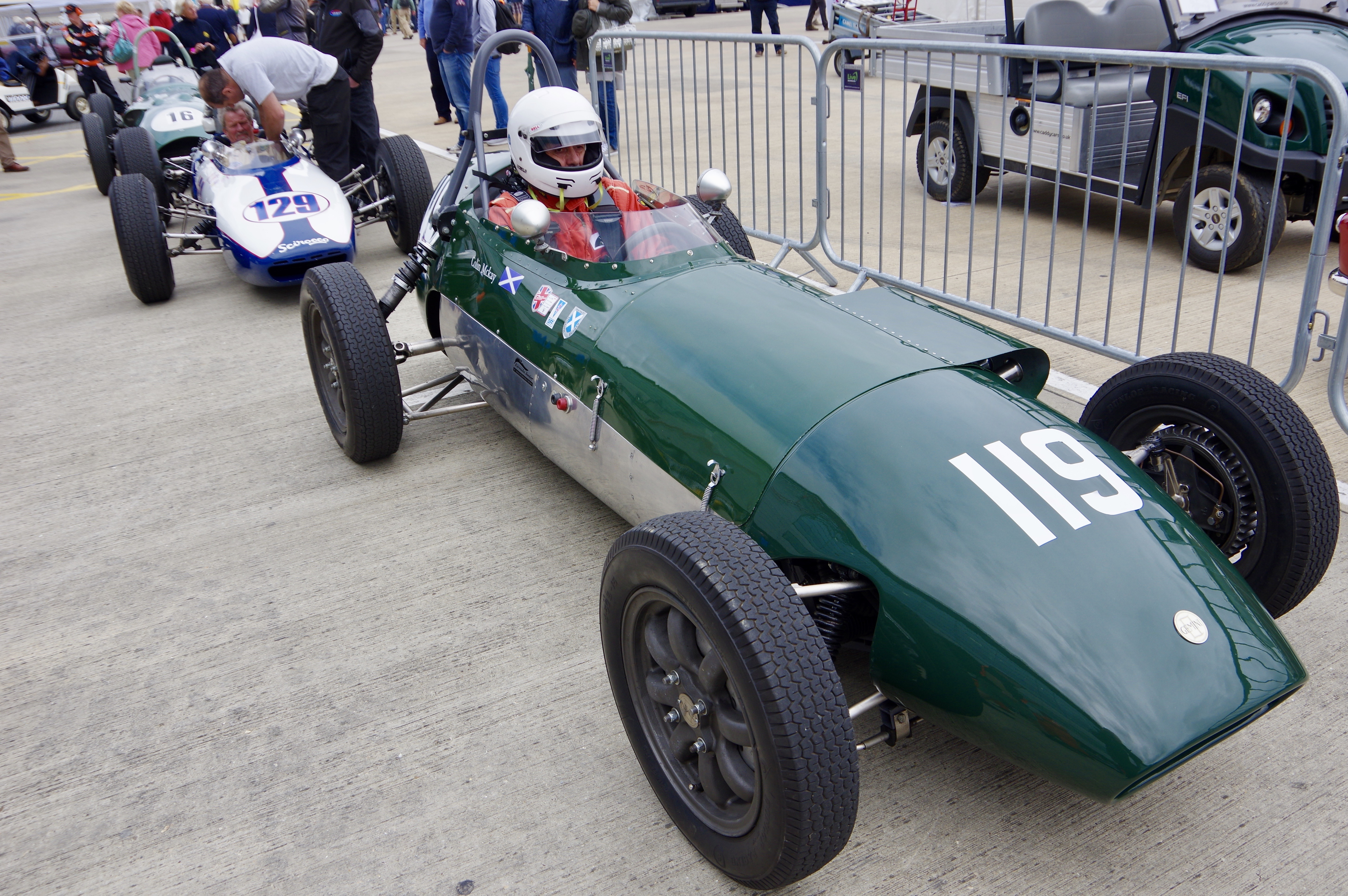 Gemini Mk 2 2017 Silverstone Classic.